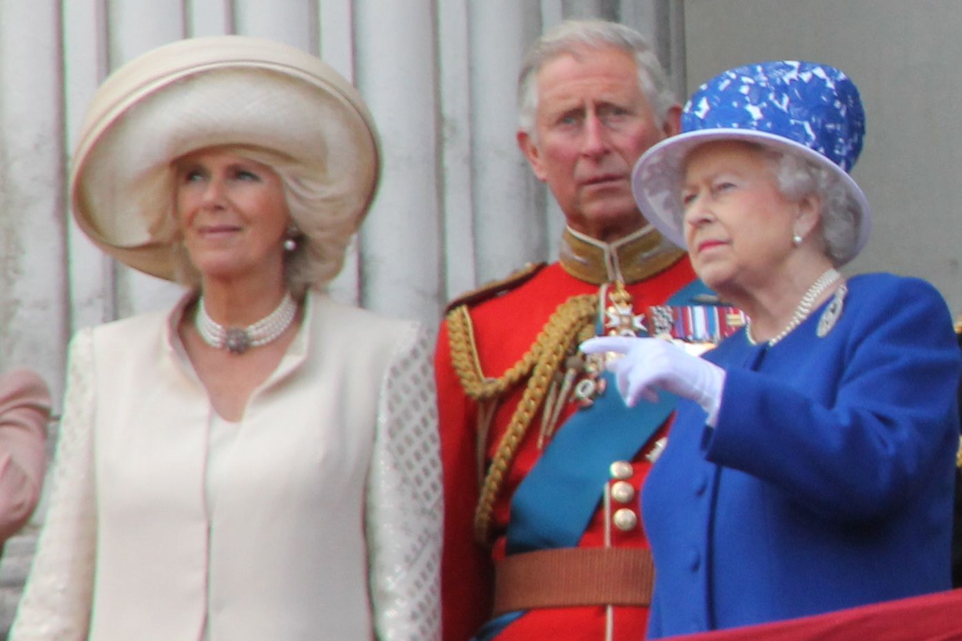 The Queen and the Duchess of Cornwall watch the royal fly past, June 2013